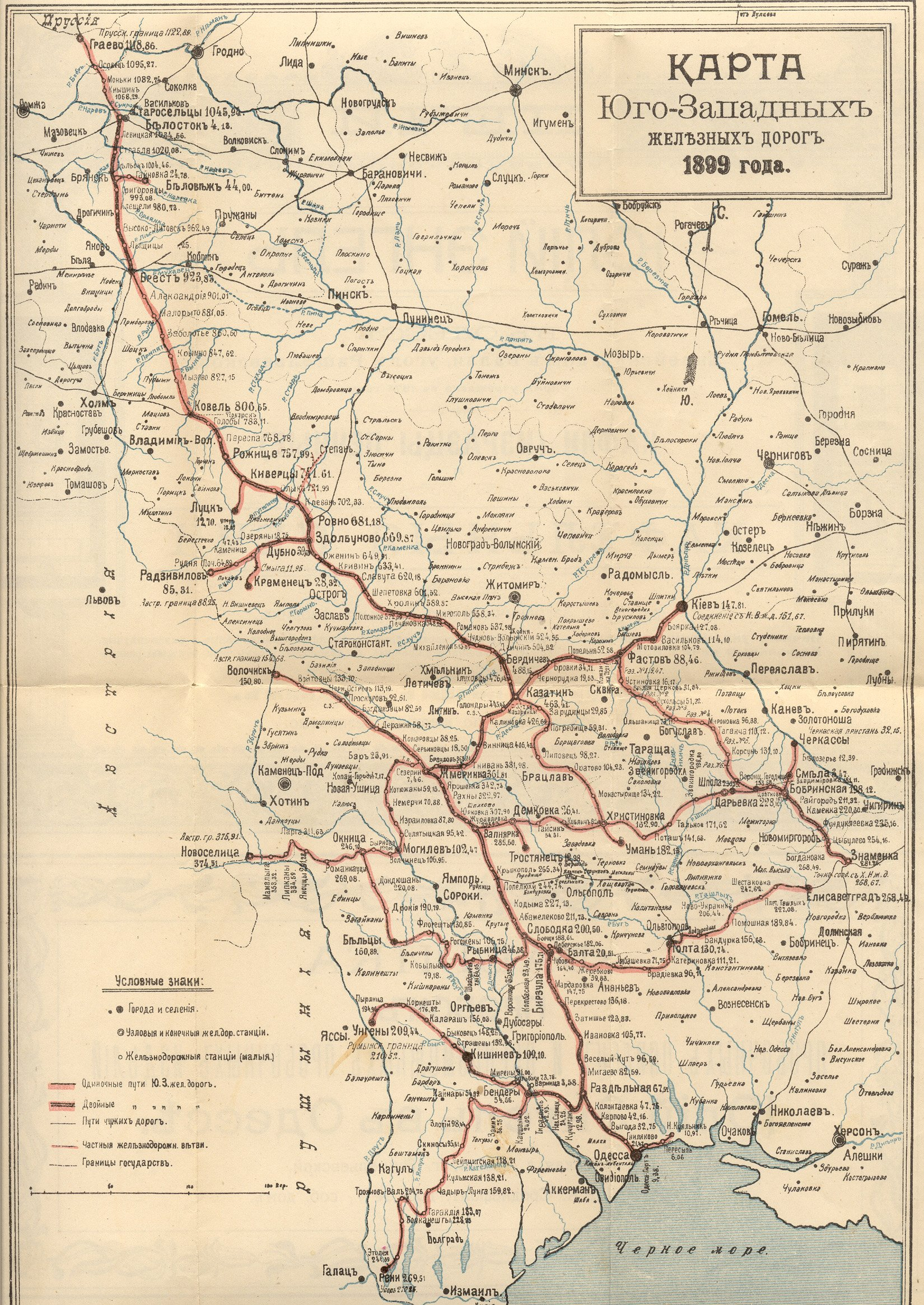 map of South-West Railways, Ukraine, 1899 year